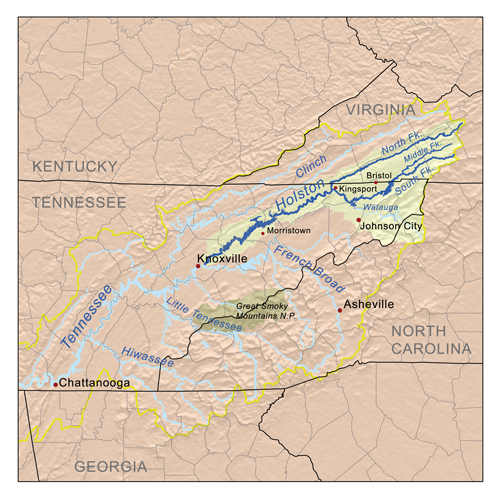 Map of the Holston River watershed.